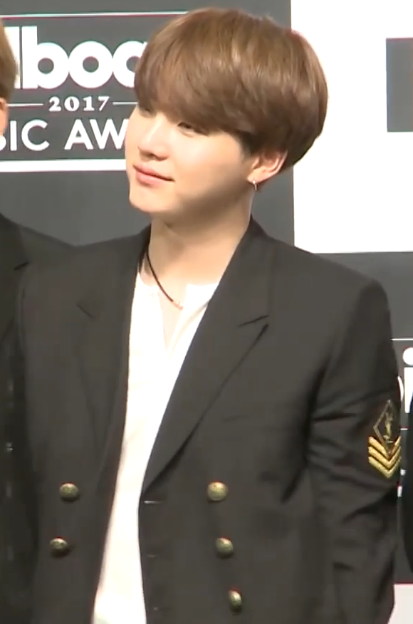 Suga at a press conference for the Billboard Music Awards on May 29, 2017